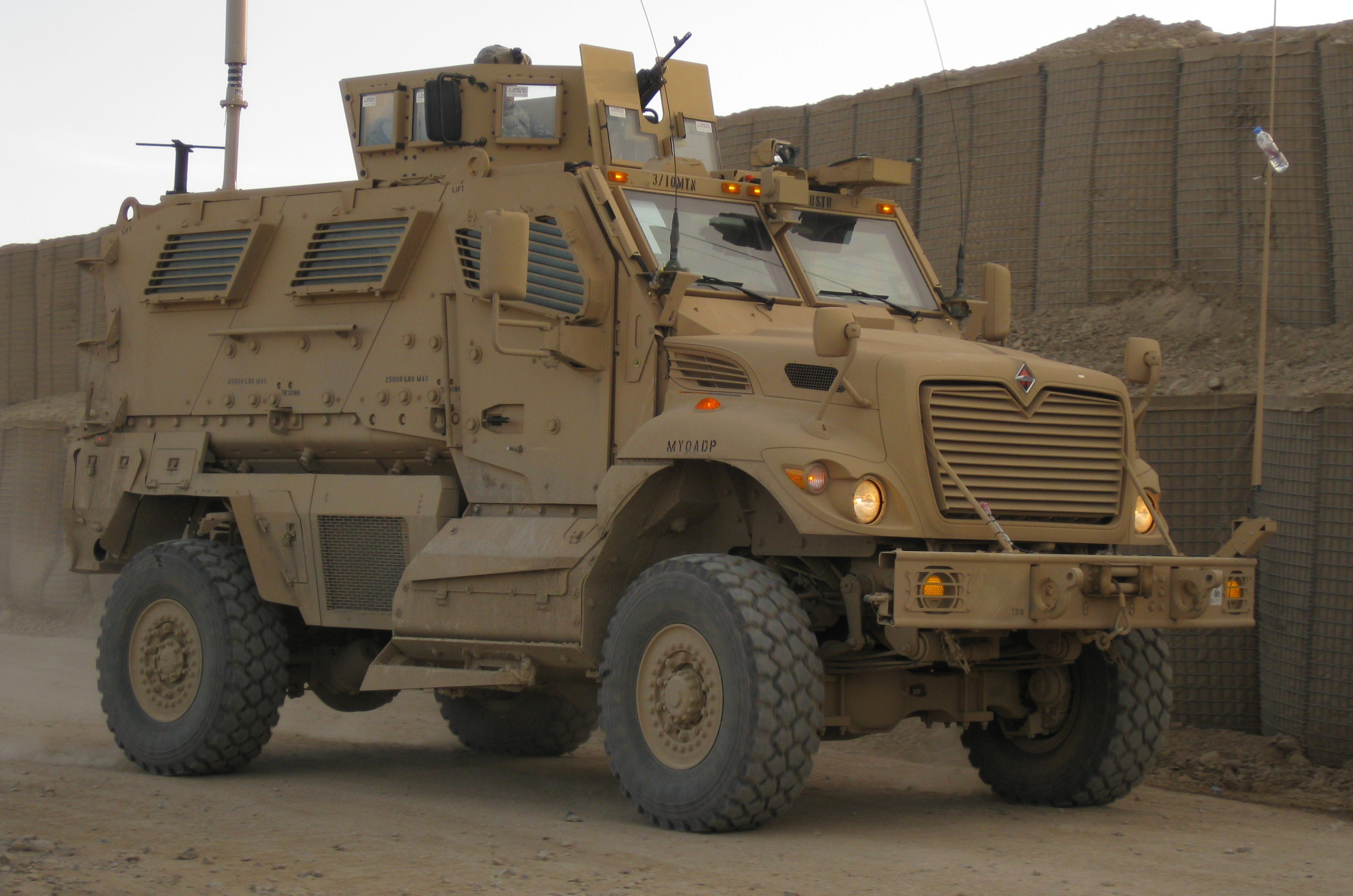 Shows the MRAP Driving. high resolution image of the MaxxPro Dash model.